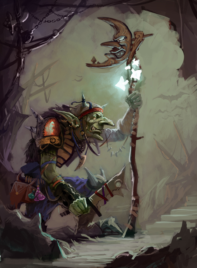 Goblin art